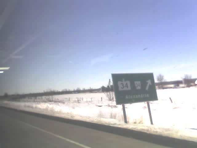 Highway 417 (Ontario)Ontario Highway 417 westbound, approaching the provincial/county Highway 34 exit - from own photo taken on 11 March 2007.